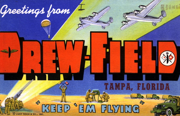 Postcard with the legend 'Greetings from Drew Field, Tampa, Florida: "Keep 'em Flying"'